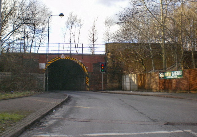 Railway Bridge over Grimshaw Lane Carries the Manchester to Rochdale Railway over Grimshaw Lane